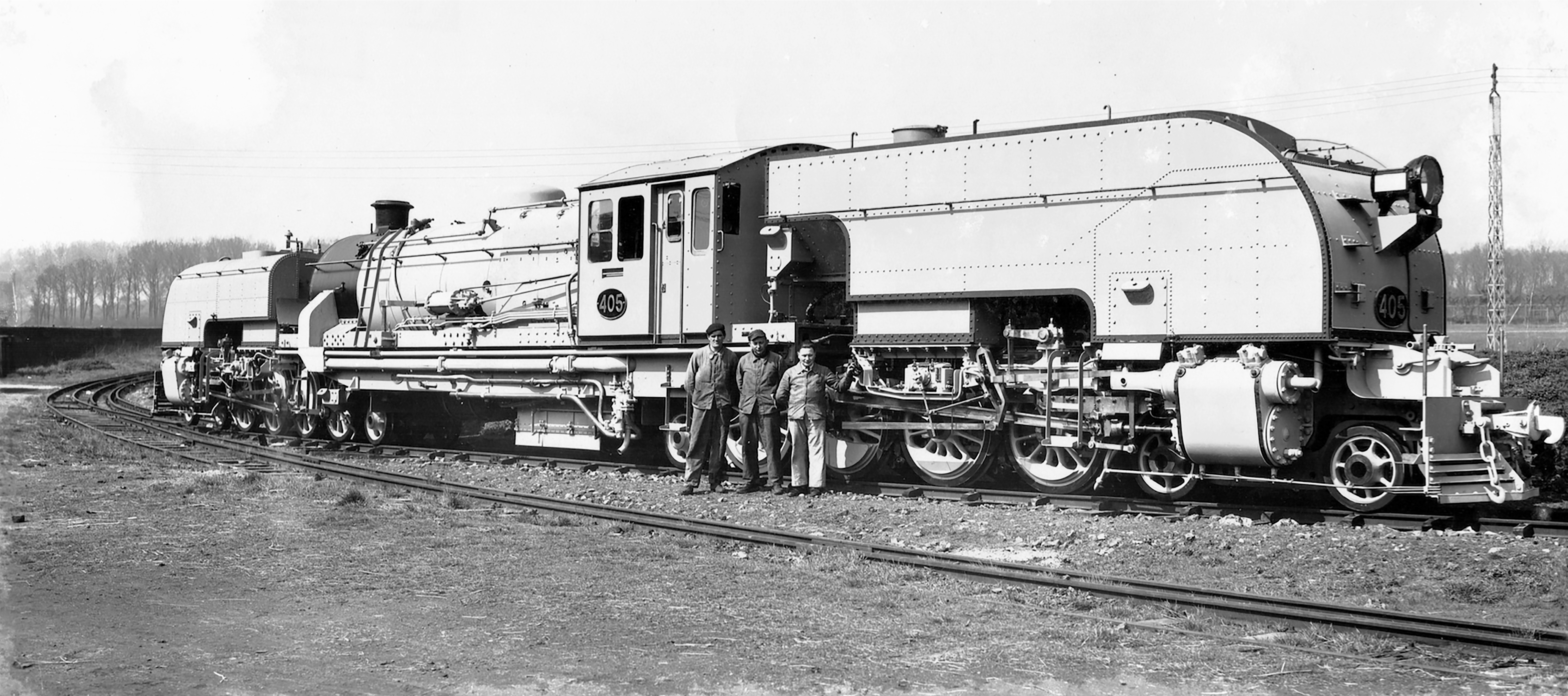 A South Australian Railways photograph of its narrow-gauge 400 class Beyer-Garratt locomotive number 405, built under licence of Beyer, Peacock & Co. Ltd by Société Franco-Belge, Raismes, France, in 1953. It is painted in a temporary "builder's photo" colour scheme to make its features more apparent than in darker colours.